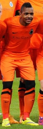 José Izquierdo